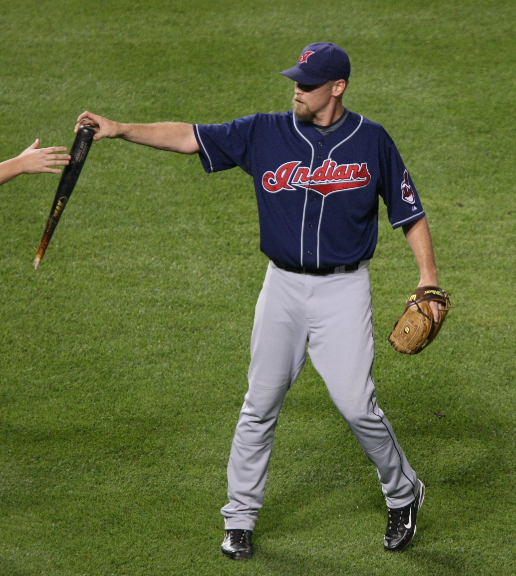 Kerry Wood